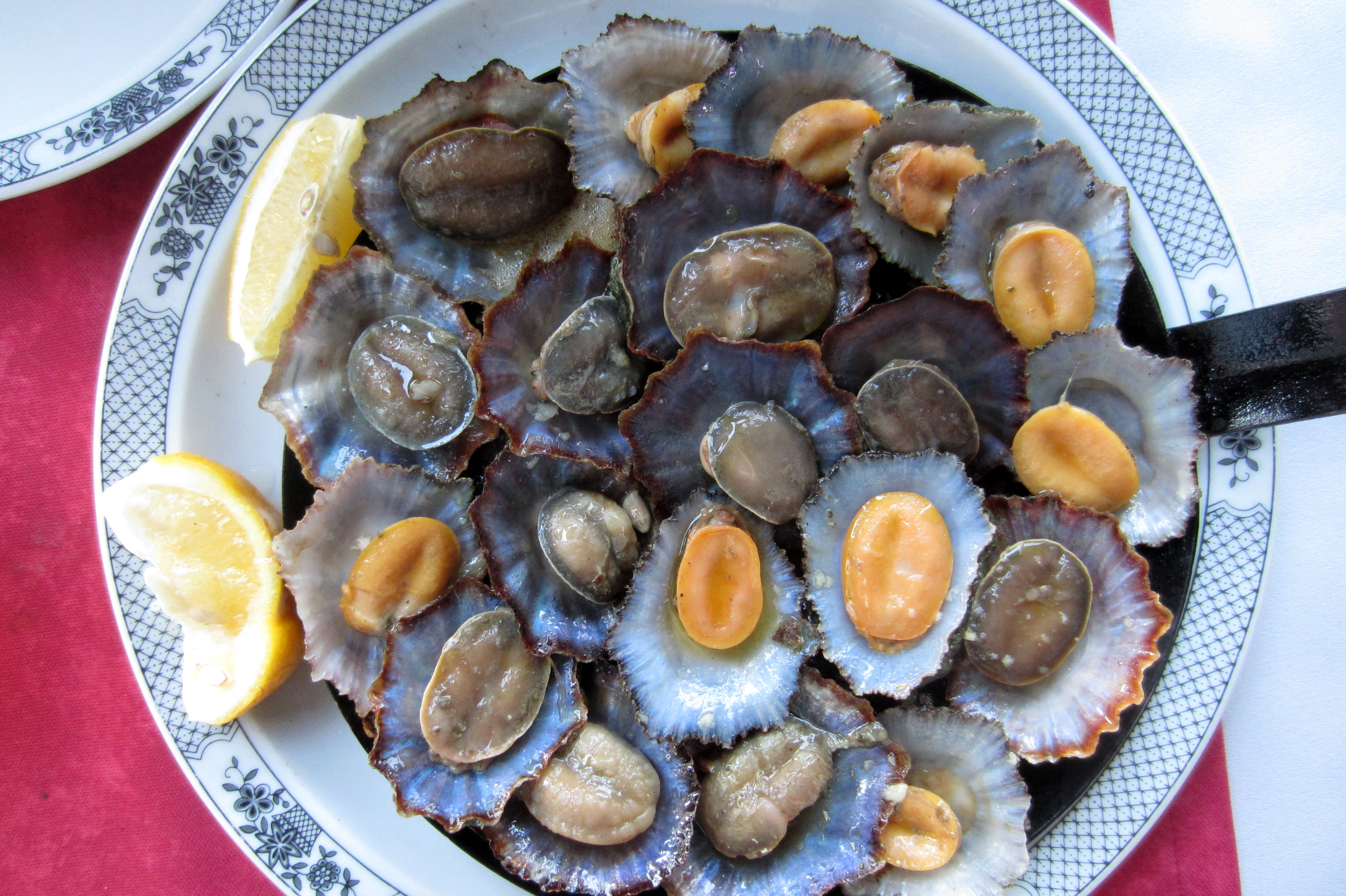 traditional seafood dish „Lapas“ from Patella vulgata on Madeira